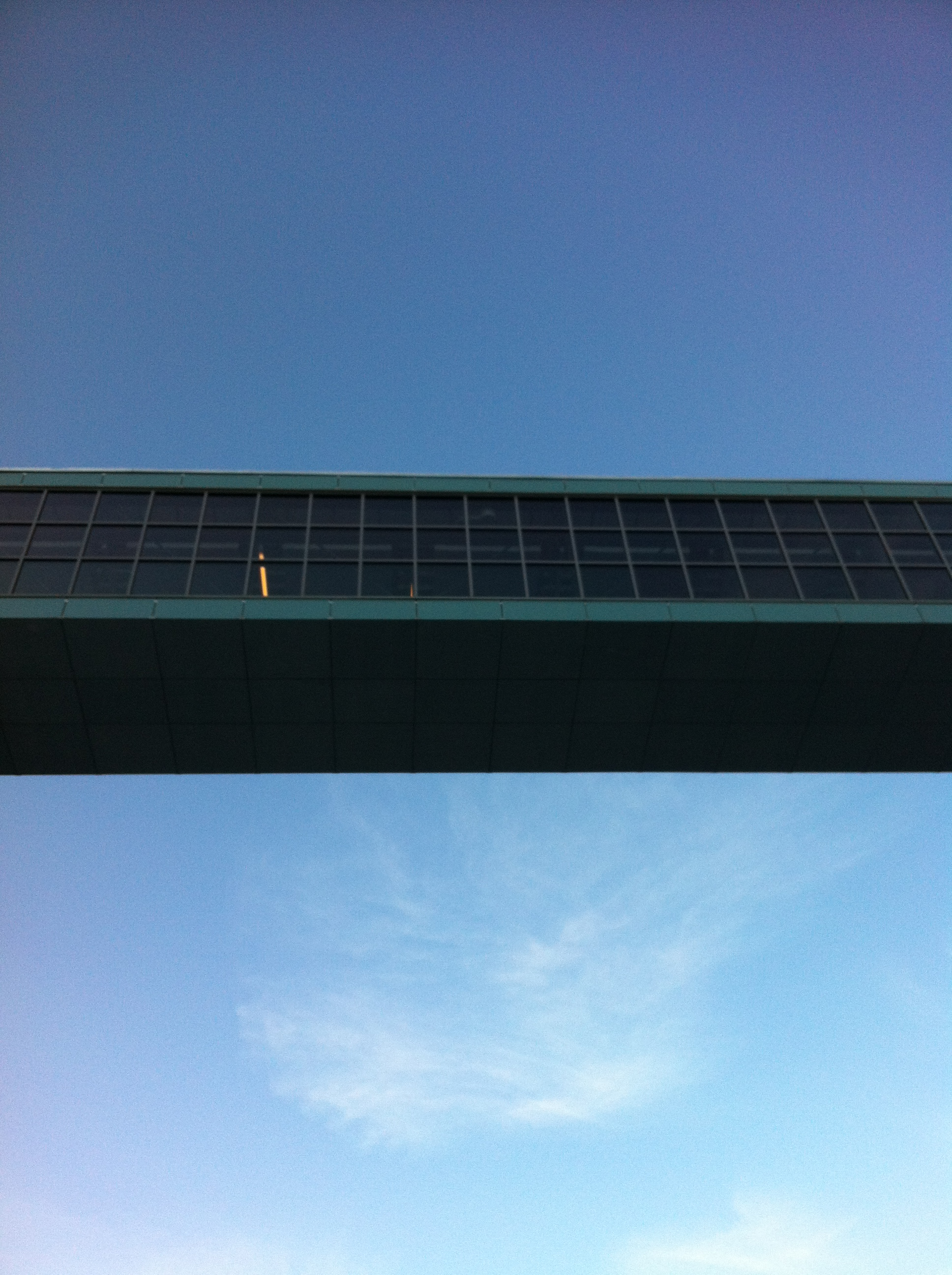 An architectural element at the Sahlgrenska University Hospital in Göteborg